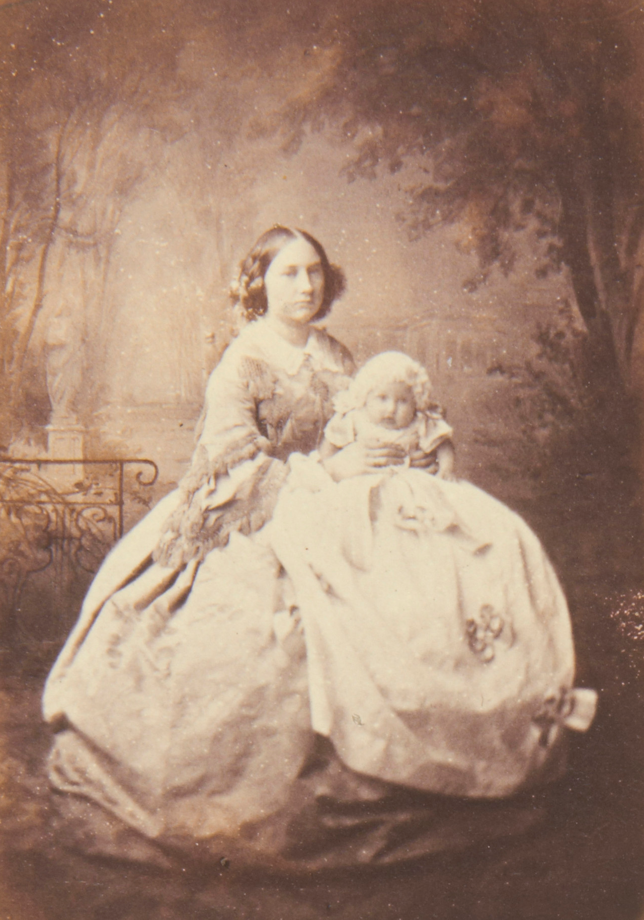 Maria Anna, Princess George of Saxony (1843-84) with her infant daughter Marie, Princess of Saxony (1860-61)